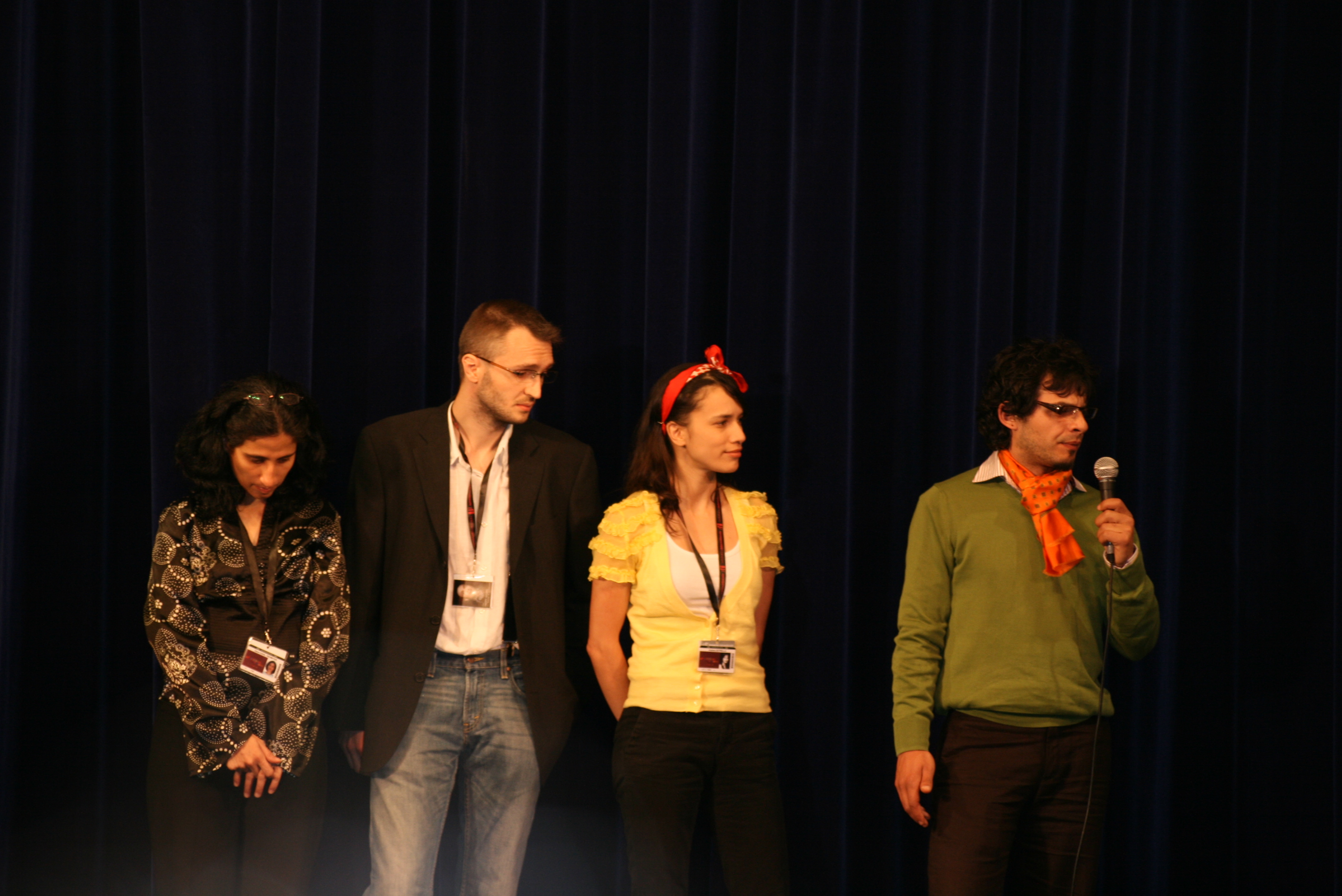 The team short "Both" at the 46è International Critics' Week.